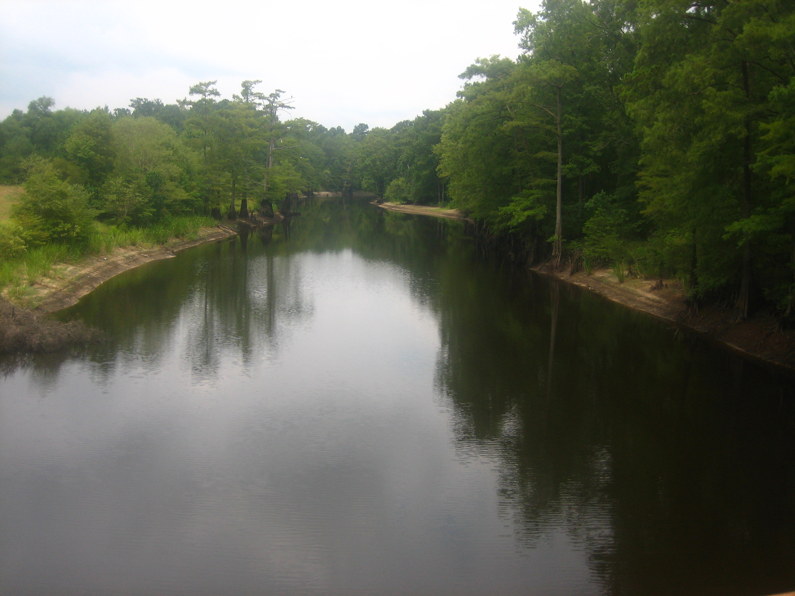 I took photo on Aug. 8, 2008.Billy Hathorn (talk) 15:46, 23 August 2008 (UTC)